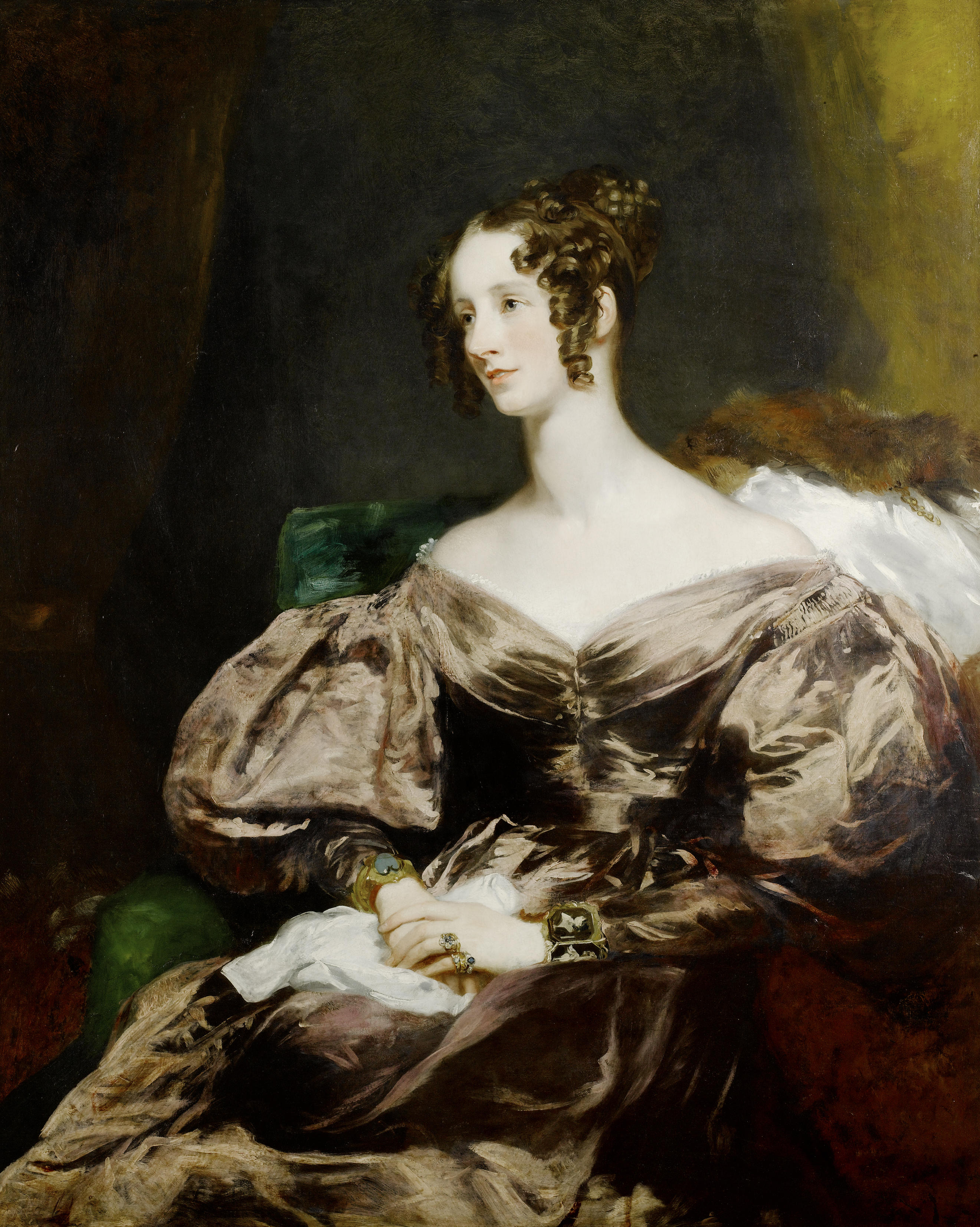 Lady Harriet Georgiana Brudenell (1799-1836), daughter of Robert Brudenell, 6th Earl of Cardigan and Lady Penelope Anne Cooke. Married Richard William Penn Curzon-Howe, 2nd Viscount Curzon (later 1st Earl Howe) in 1820.